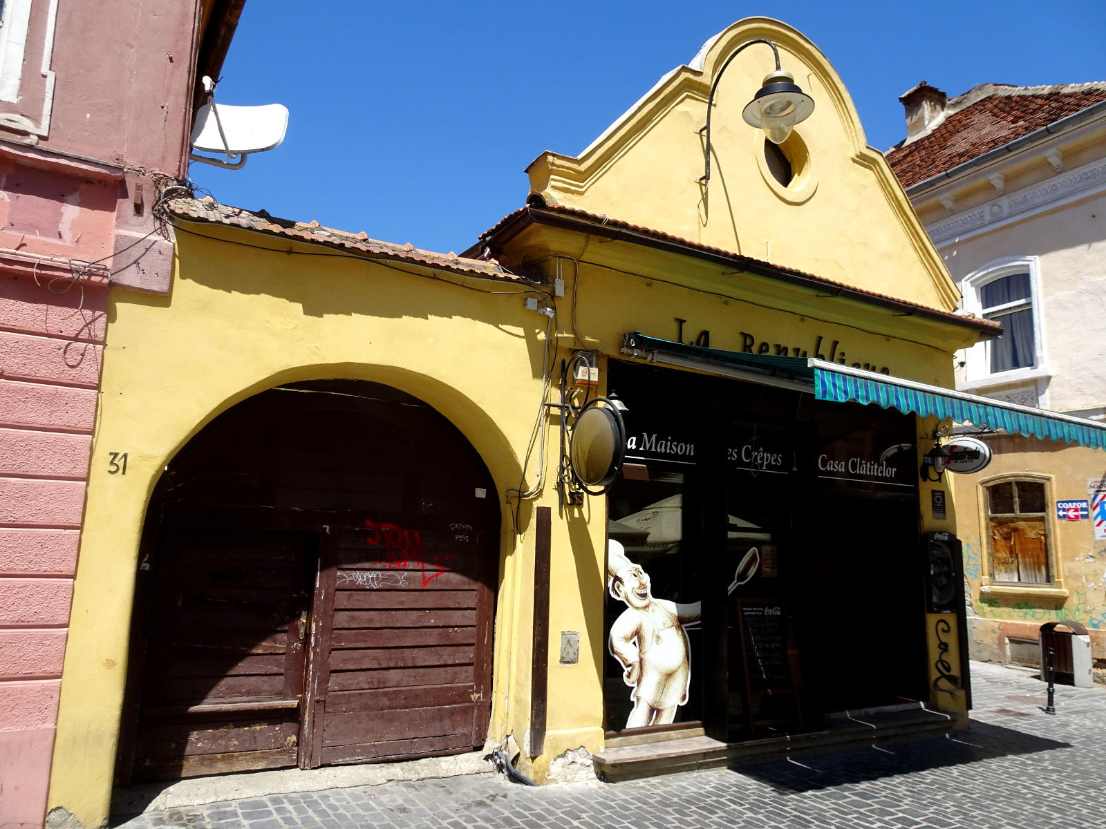 House on Republicii street, Brașov